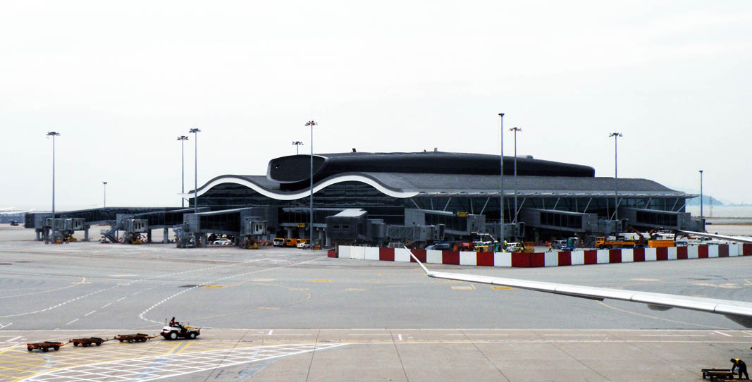 North Satellite Concourse, Hong Kong International Airport.